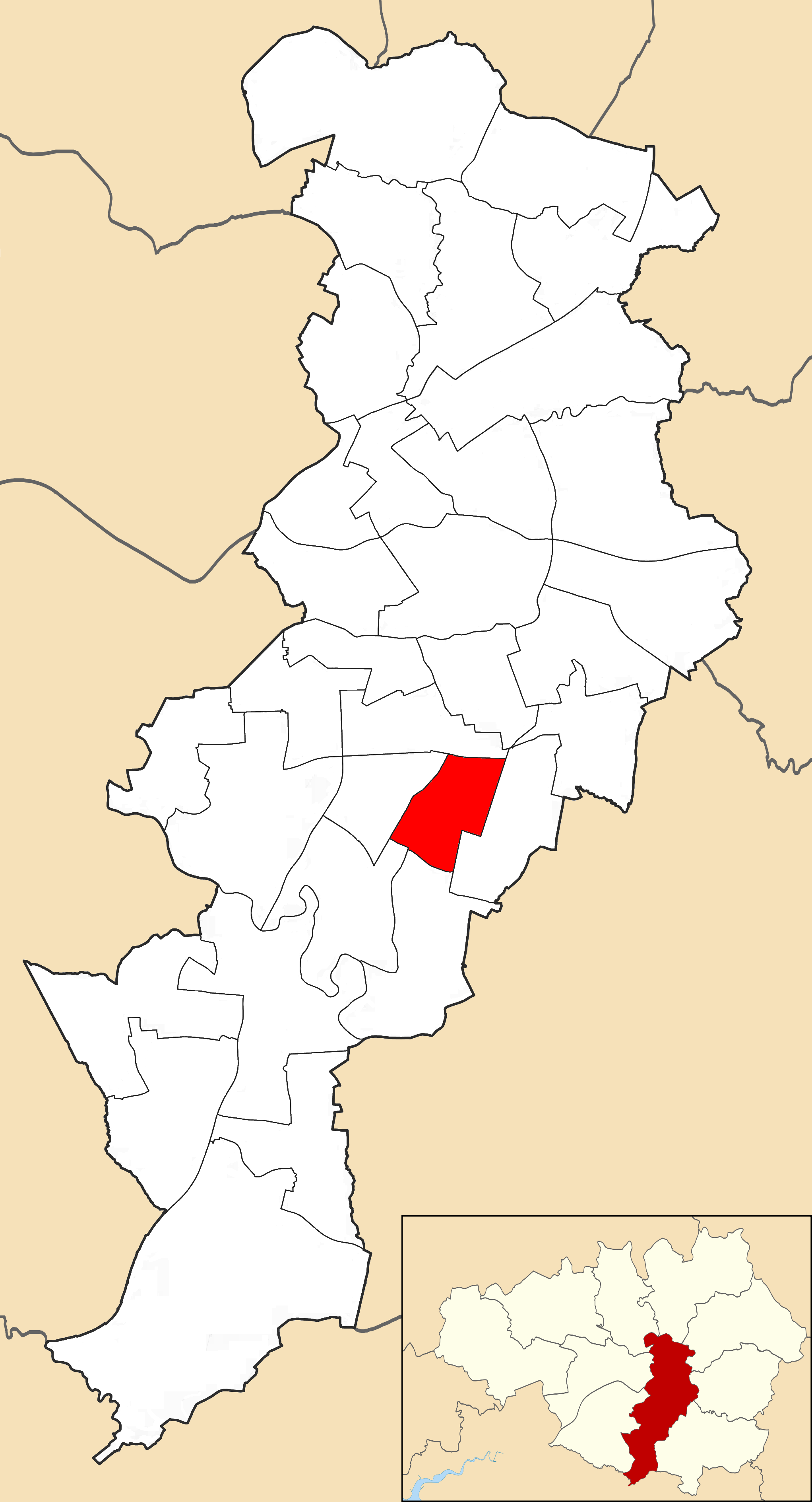 Map showing location of Withington ward within Manchester City Council.